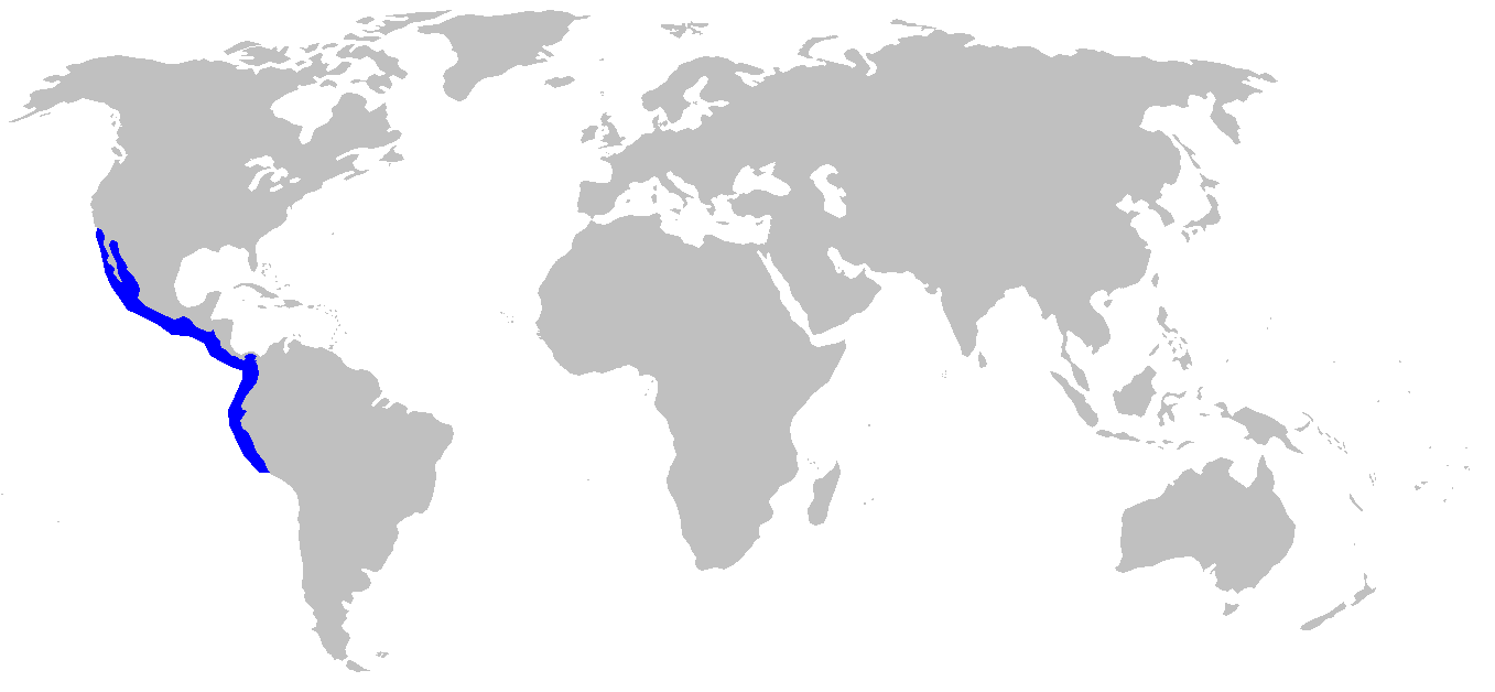 Distribution map for Rhizoprionodon longurio